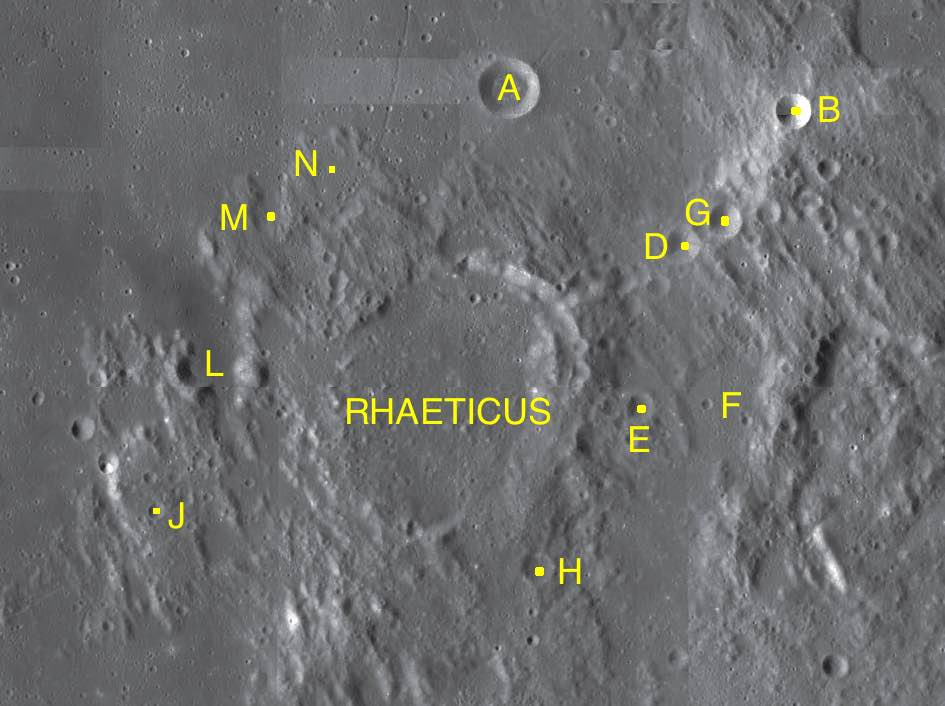 Parts of the charts LAC-59, LAC-77 used for the presentation